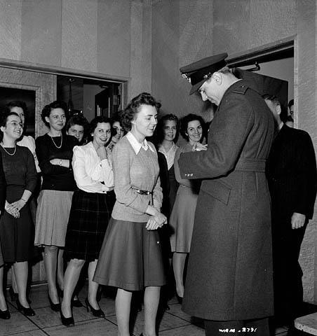 "Buzz" Beurling, famous flying ace during World War II, signs an autograph for Helen Fowler, while other female employees of the Aluminum Co. look on. Kingston, Ontario.